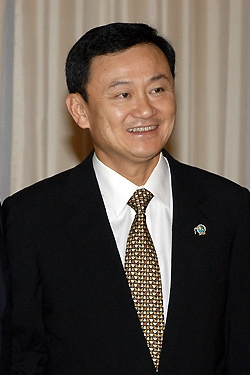 BANGKOK. President Putin with Thai Prime Minister Thaksin Shinawatra.